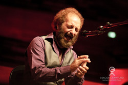 6/10 Duquende . Photo by: Jacob Crawfurd (9451)